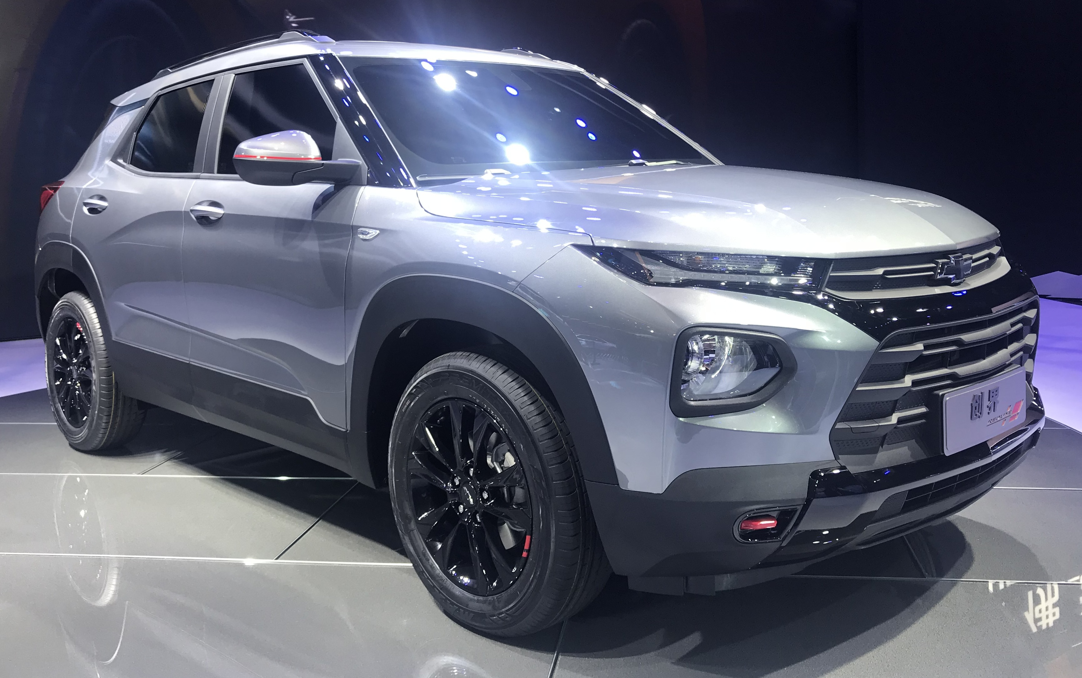 Chevrolet TrailBlazer front